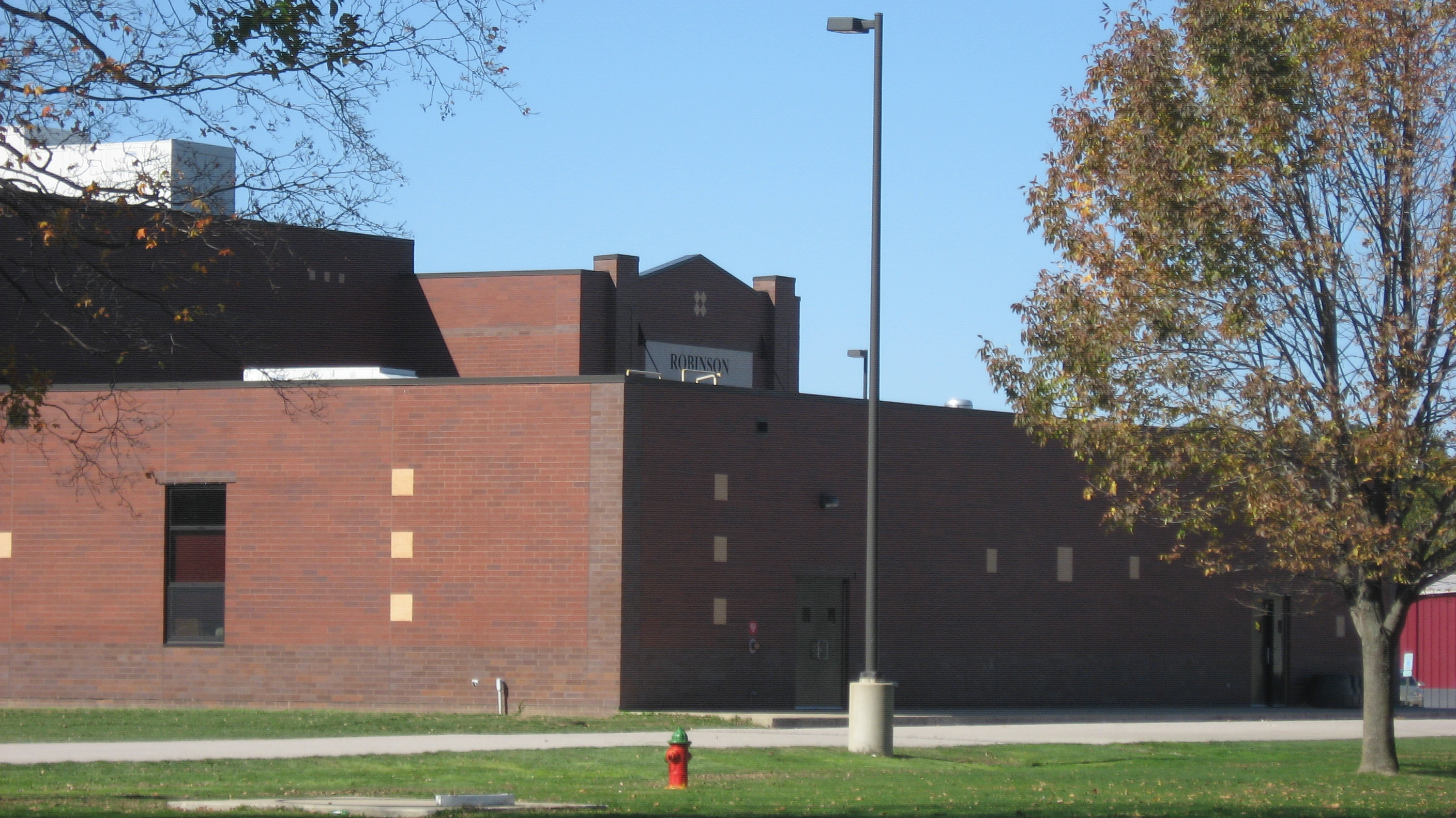 Part of Robinson High School, located on the northern side of Highland Avenue in Robinson, Illinois, United States. These buildings (very new) sit on the site of the school's auditorium and gymnasium, which was listed on the National Register of Historic Places in 2005; it has been destroyed since then, but it is still listed on the Register.